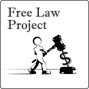 Logo for Free Law Project organization